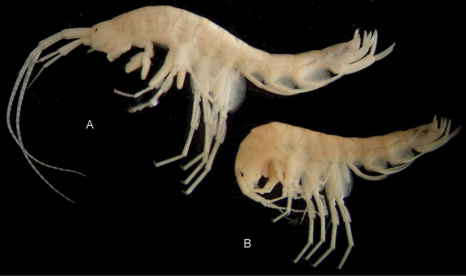 Habitus of Synurella odessana, left side (preserved specimens): A male, 11.5 mm, holotype X42024/Cr-1541-FEFU B female, 9.0 mm, paratype X42025/Cr-1542-FEFU.